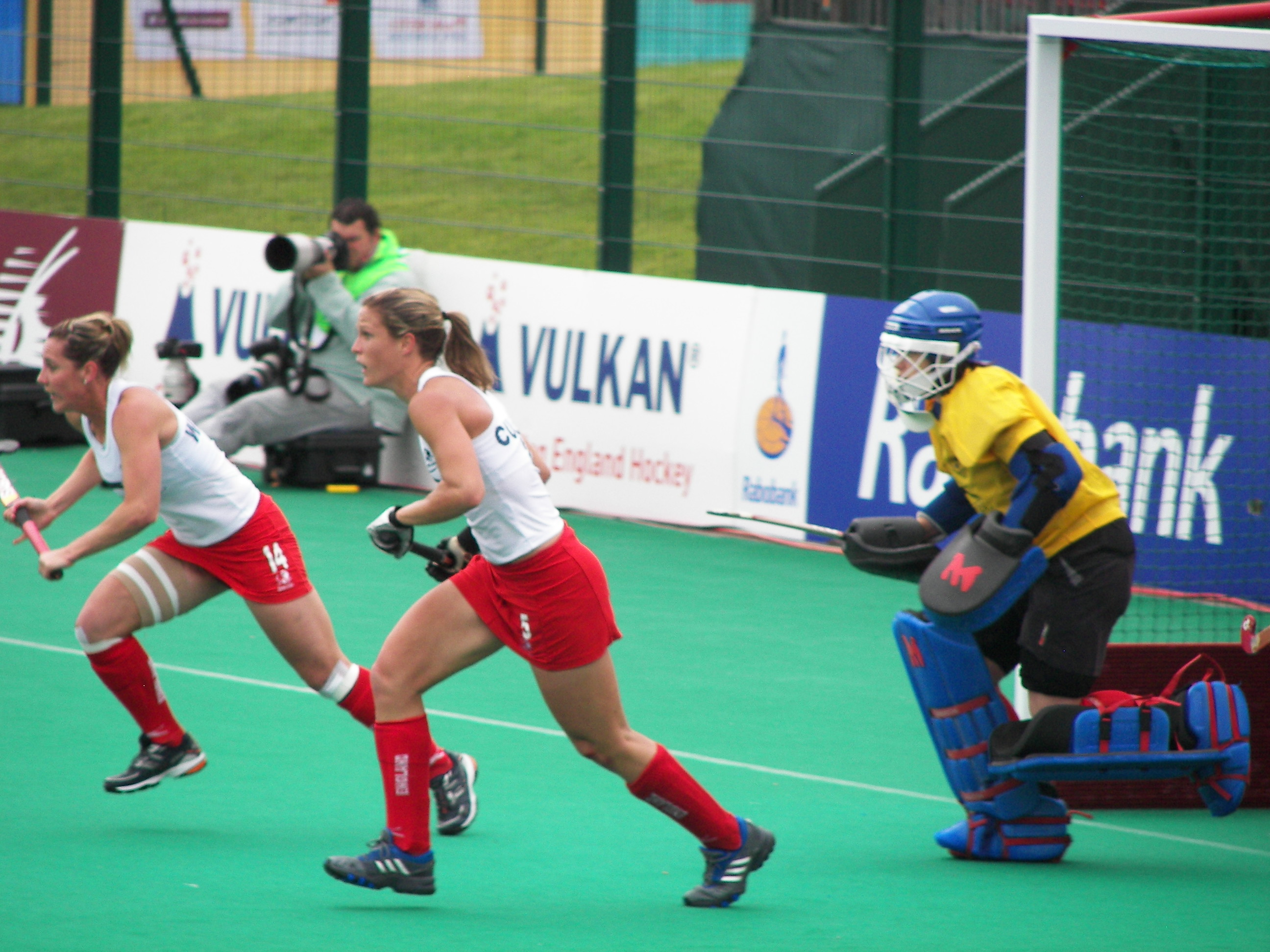 Rachel Walker, Crista Cullen and Beth Storry defend a penalty corner.